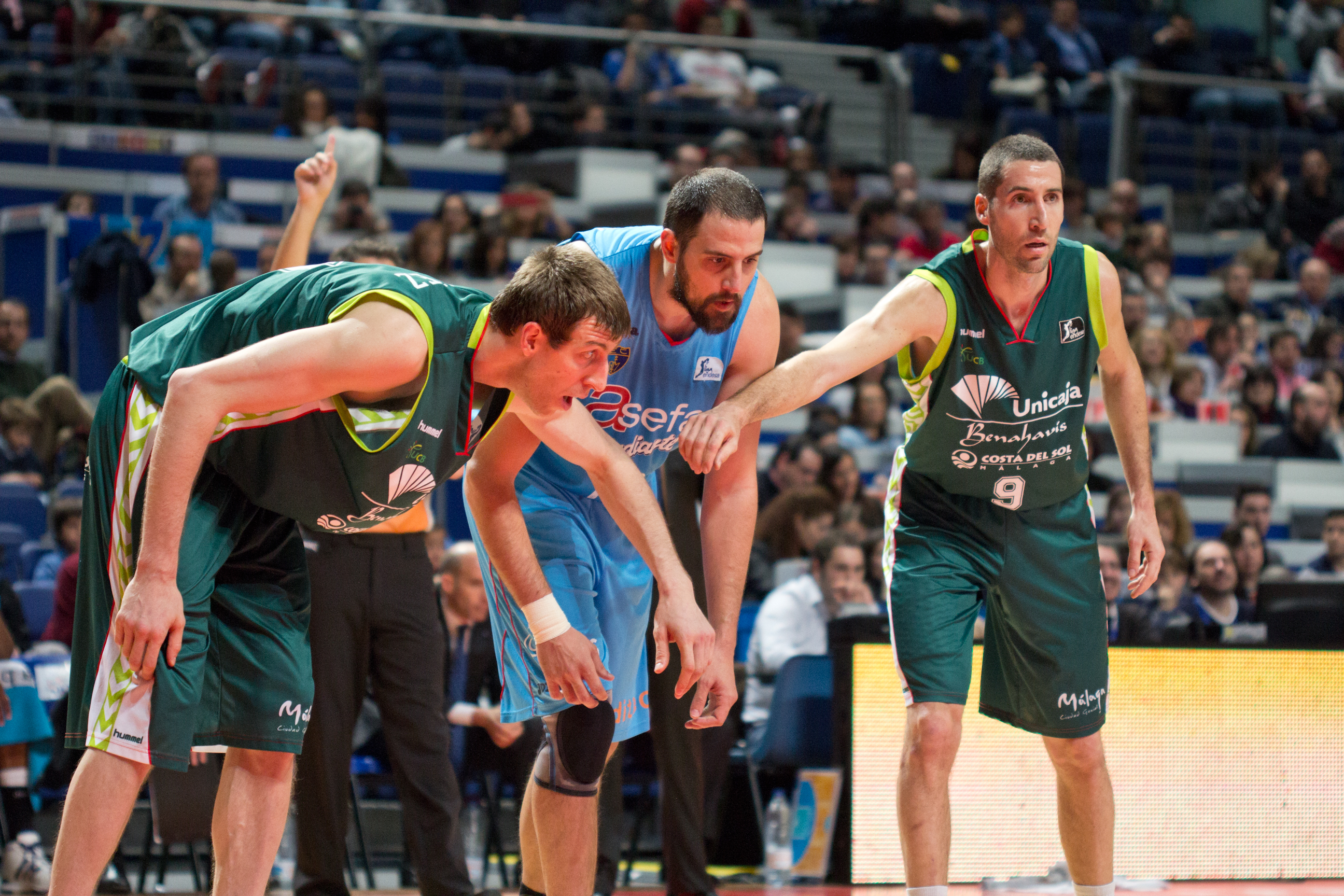 Fran Vázquez, Germán Gabriel, Sergi Vidal. Game Estudiantes vs Unicaja Málaga.